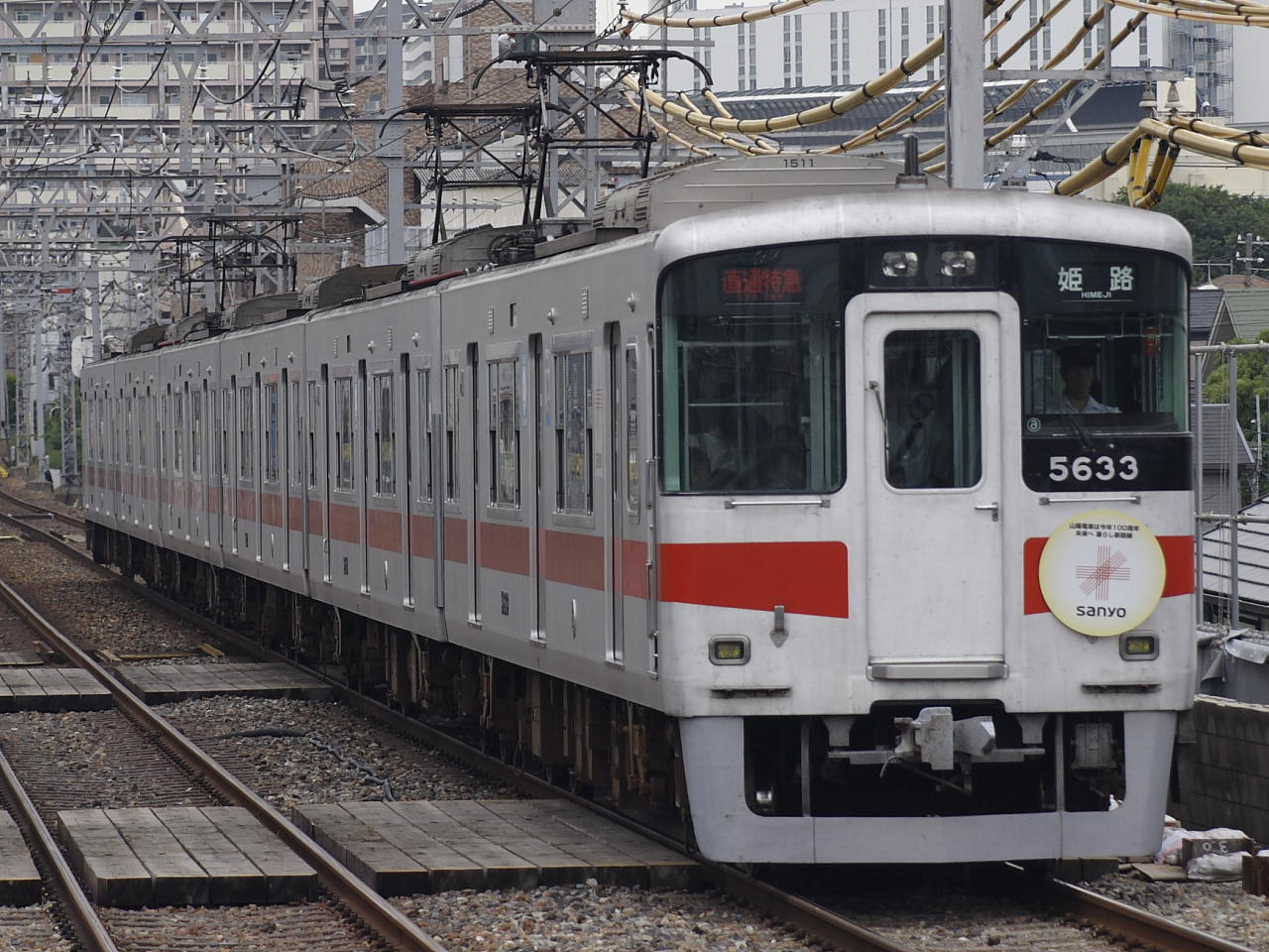 A Sanyo Electric Railway 5030 series EMU approaching Uozaki Station on the Hanshin Electric Railway Main Line